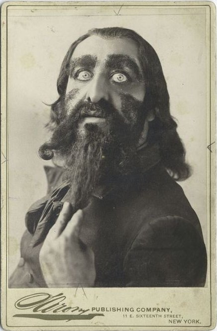 Actor Wilton Lackaye (1862-1932) as Svengali in the original American production of Trilby (1895)